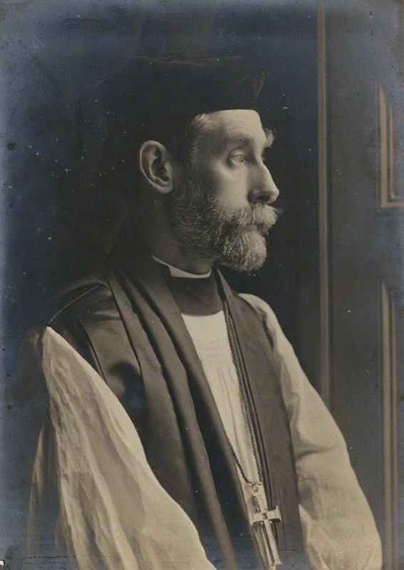 Bishop Charles Gore